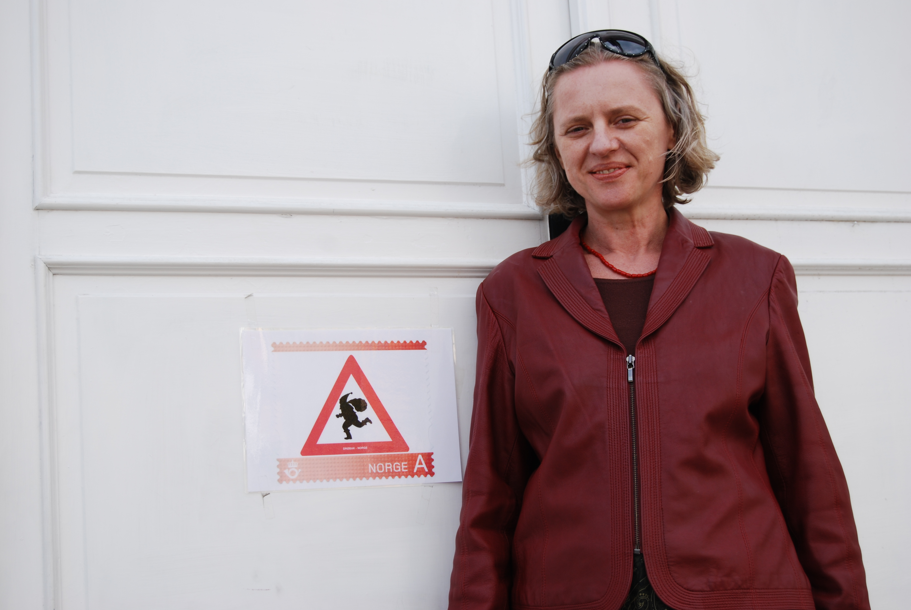 Polish writer Izabela Filipiak in Drøbak (Norway)